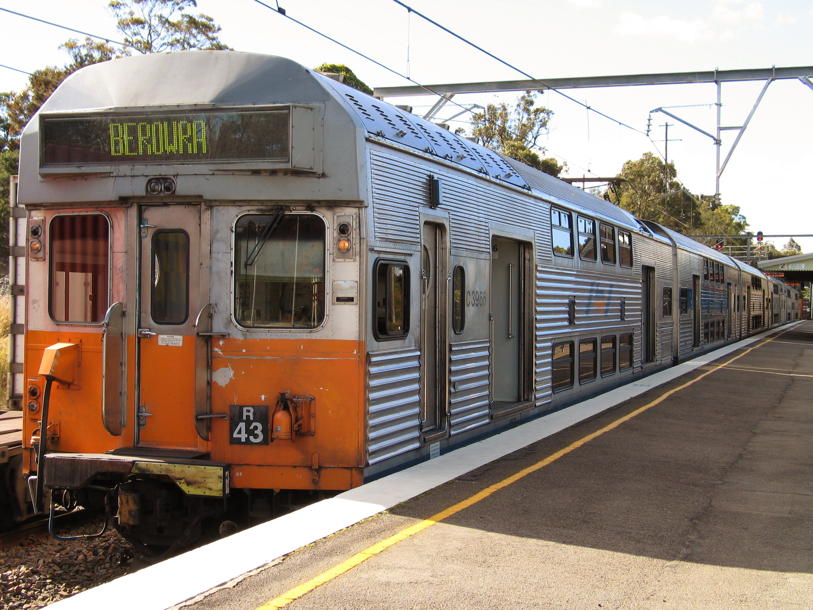 CityRail R set 43 at Berowra station.